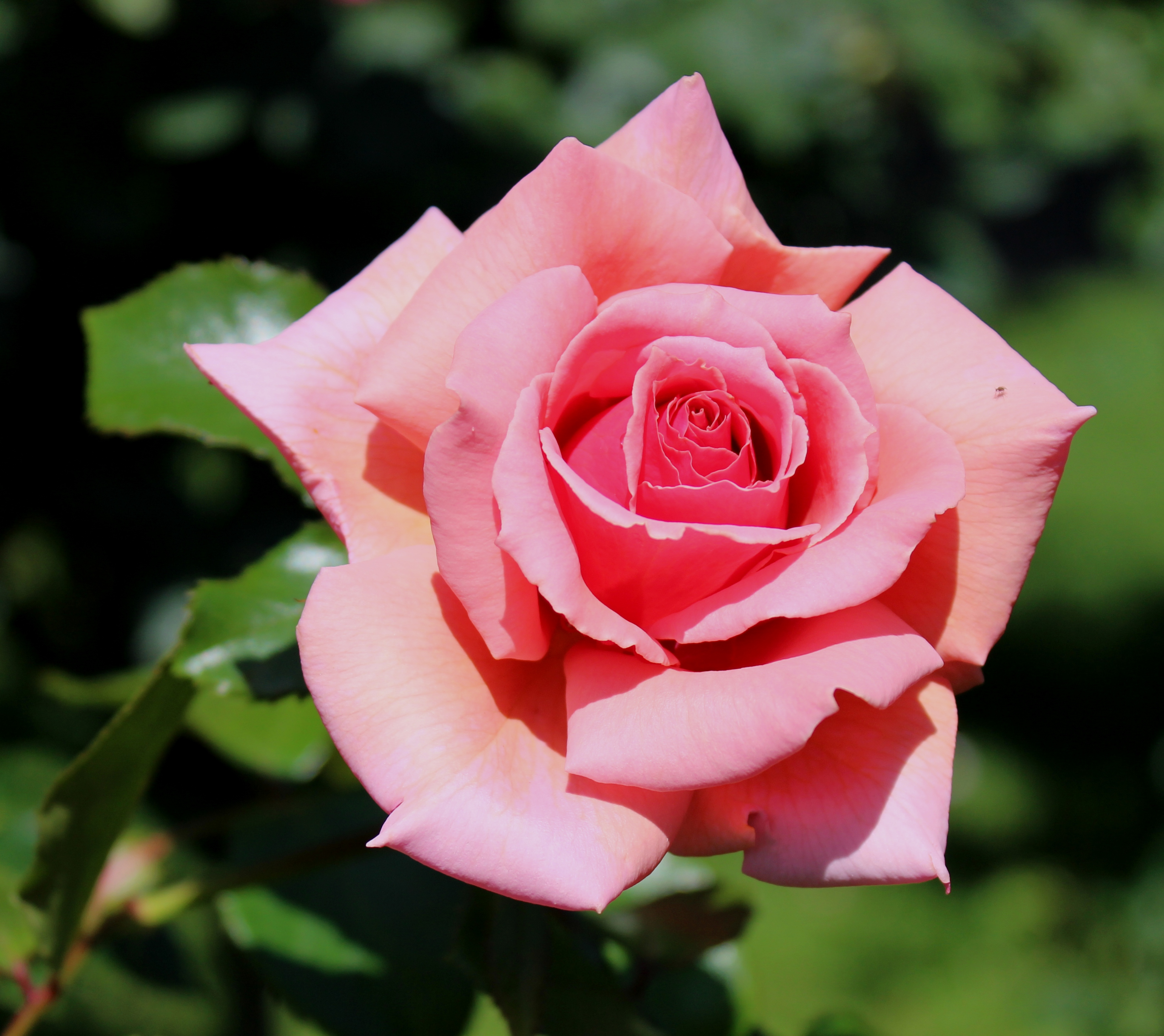 Rosa 'Steffi Graf' in the Volksgarten in Vienna, Austria. Identified by sign.